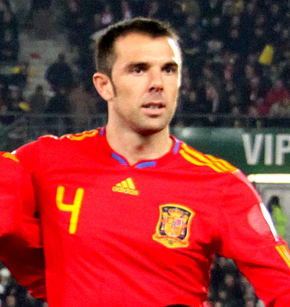 Spain national football team at 2009-11-18 in Vienna (Ernst-Happel-Stadion) vs. Austria national football team (5:1) → For the names of the players move the mouse over the photo.